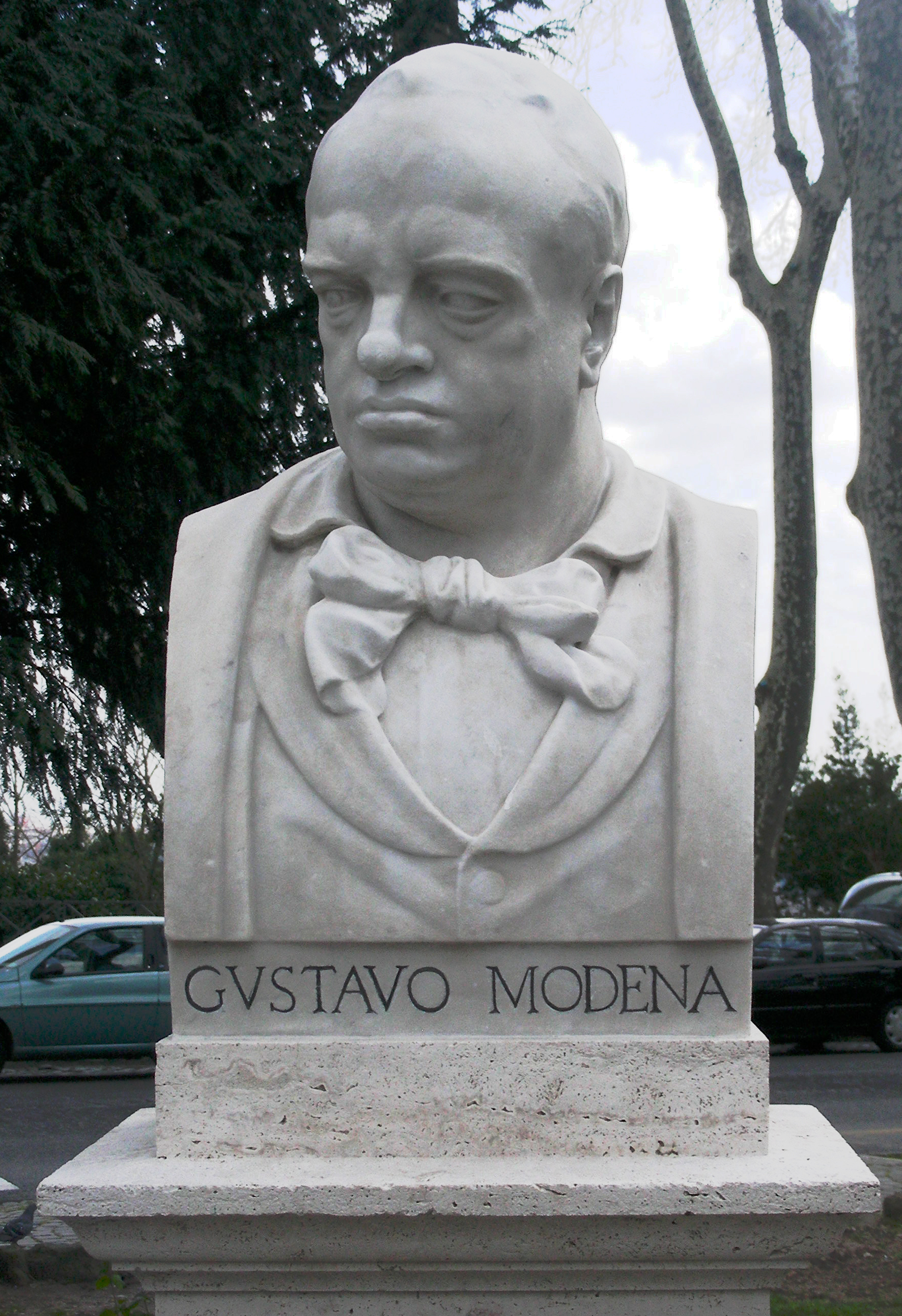 Rome, park of Gianicolo, bust of Gustavo Modena (1803-1861), by Carlo Lorenzetti (before 1949)